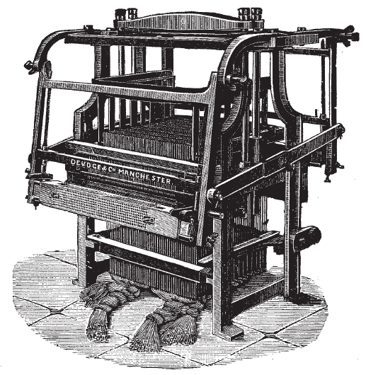 Double cylinder 400 Jacquard: Images from Marsden 1892 book on Cotton Weaving. *Marsden, Richard (1895) (in english) Cotton Weaving: Its Development, Principles, and Practice, George Bell & Sons, pp. 584 Retrieved on Feb 2009.